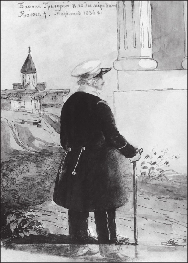 Drawing from a Georgian album of the Russian officer Platon Chalishechev.